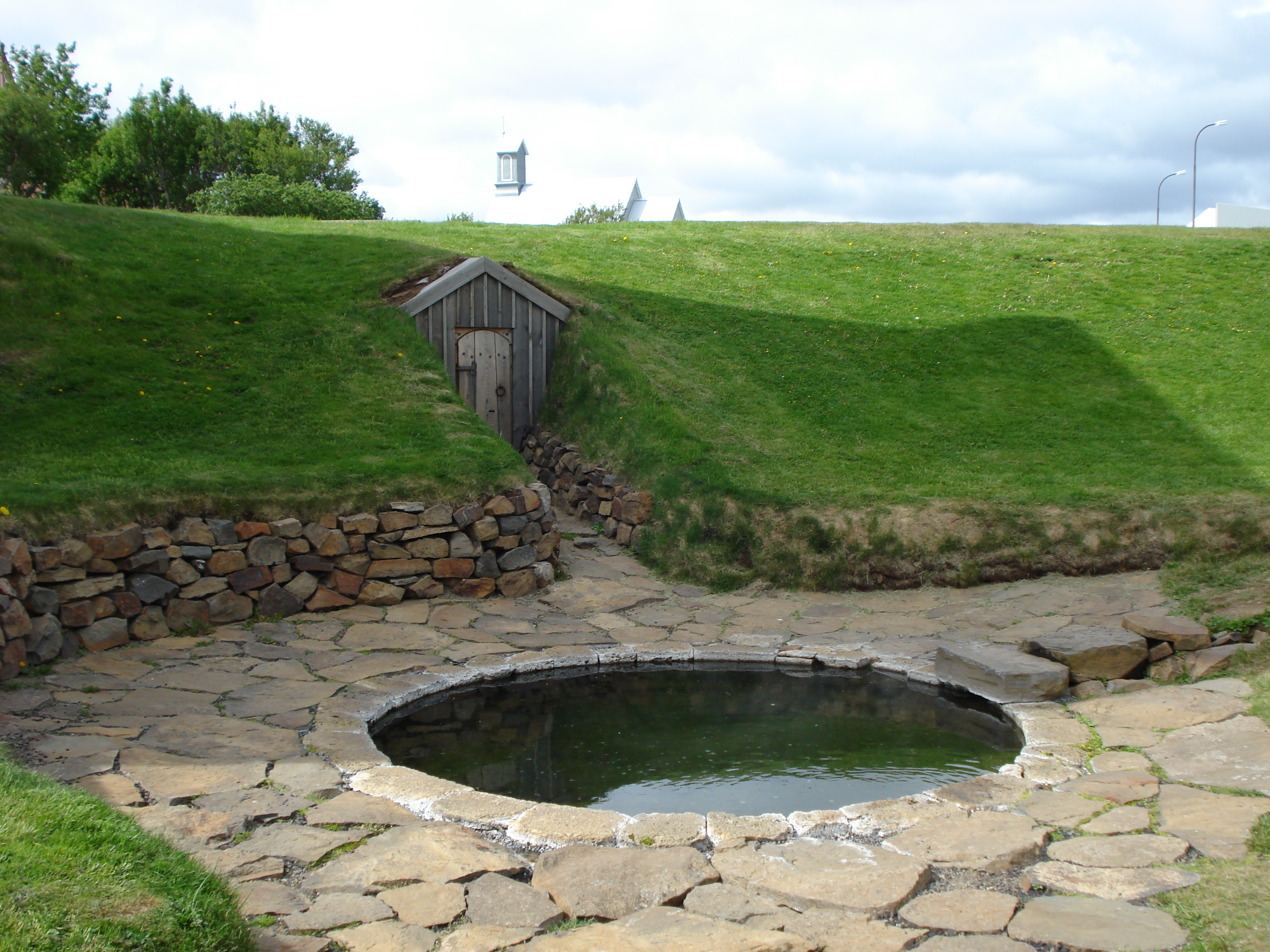 Getið er um laug í Reykholti (Snorralaug) í Landnámu en þessi er talin vera frá tímum Snorra Sturlusonar enda oft nefnd í Sturlungu. Hún var endurhlaðin 1858 og aftur 1959 óbreytt. Í slíkum laugum suntu menn ekki heldur sátu sér til hressingar í heitu vatninu og í Sturlungu segir: "Snorri sat í laugu". Jarðgöng lágu frá bænum svo að greiðari leið væri til laugar og einnig mátti flýja um þau, ef óvinir sóttu að. Talið er að þau hafi getað legið í kjallara þann sem Snorri flúði í er hann var veginn 12. september 1241. The Book of Settlement mentions the existence of a natural warm pool at Reykholt. The present one supposedly dates back to historian Snorri Sturluson's time in the 13th century. It was restored in 1858 and again in 1959. The pool was used for bathing and relaxing, as written in Sturunga Saga. A tunnel gave easy access to it from the farmhouse, and could also be used as an emergency exit in case of attack. Legend has it that the tunnel led to the cellar where Snorri tried to hide from his enemies, Earl Gissur's men, before being slain by them on 12. September 1241.